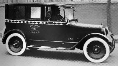 1922 Elcar taxicab in Diamond Taxicab Co trim. This car looks very similar to the L6 model, and is larger than the taxicab used by DTC in New York.